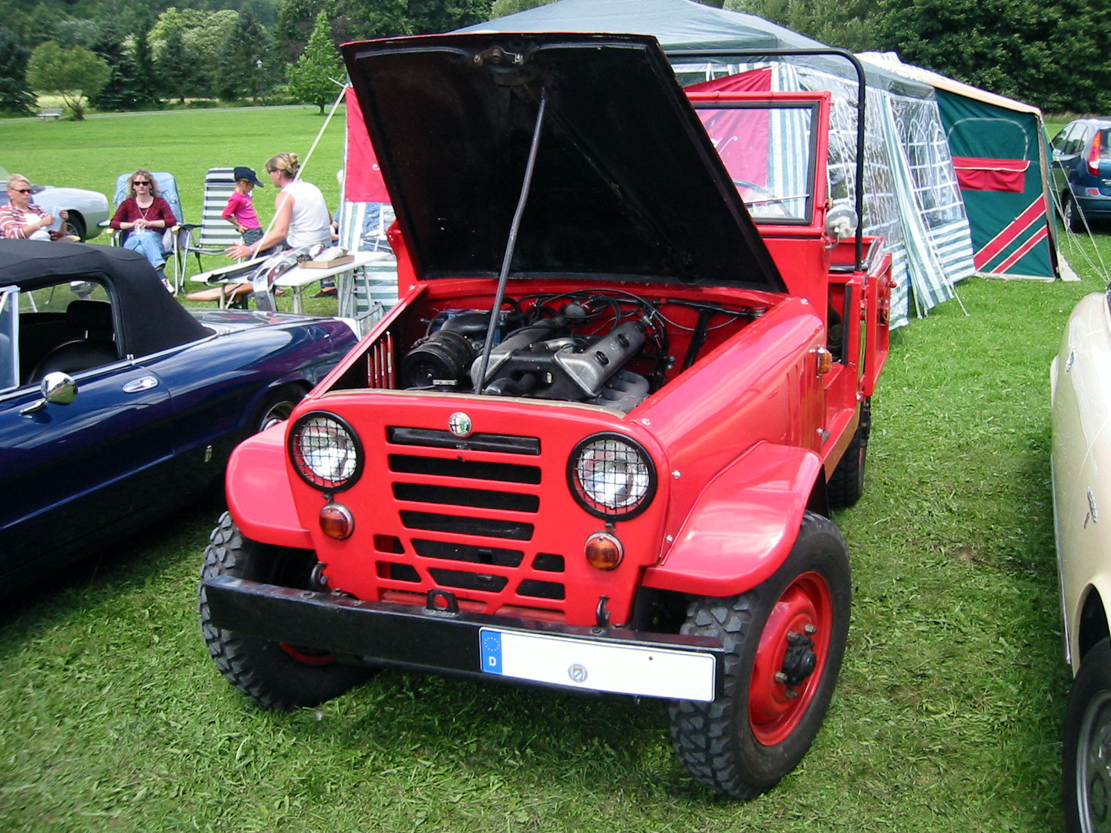 A Alfa Romeo 1900 M at the 13th Autoshow in Bad König